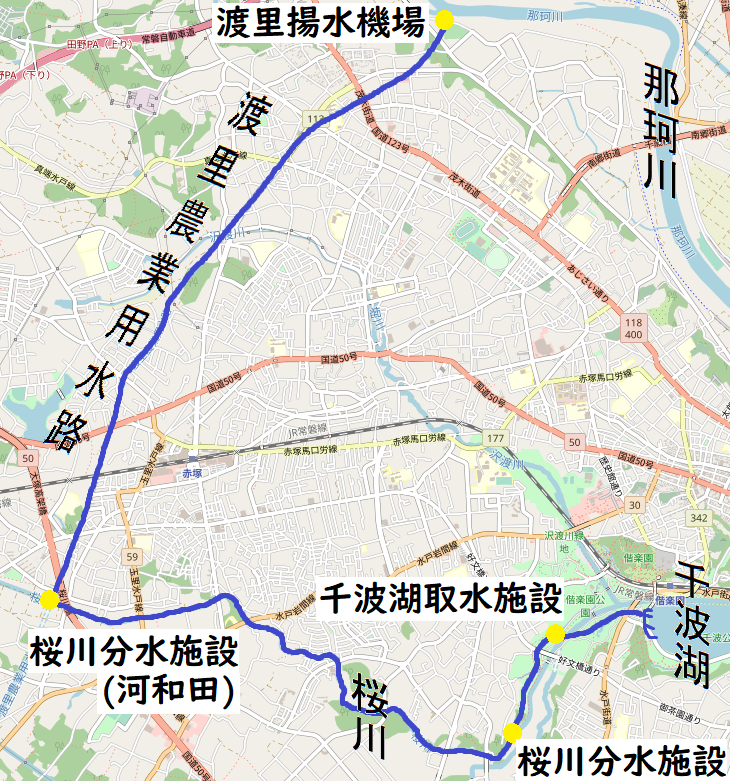 Diagram showing the route of water transmission in the “Senko Lake Water Transfer Project” that transfers water from the Naka River to Lake Senba in Mito City, Ibaraki Prefecture. This map may be incomplete, and may contain errors. Don't rely solely on it for navigation.